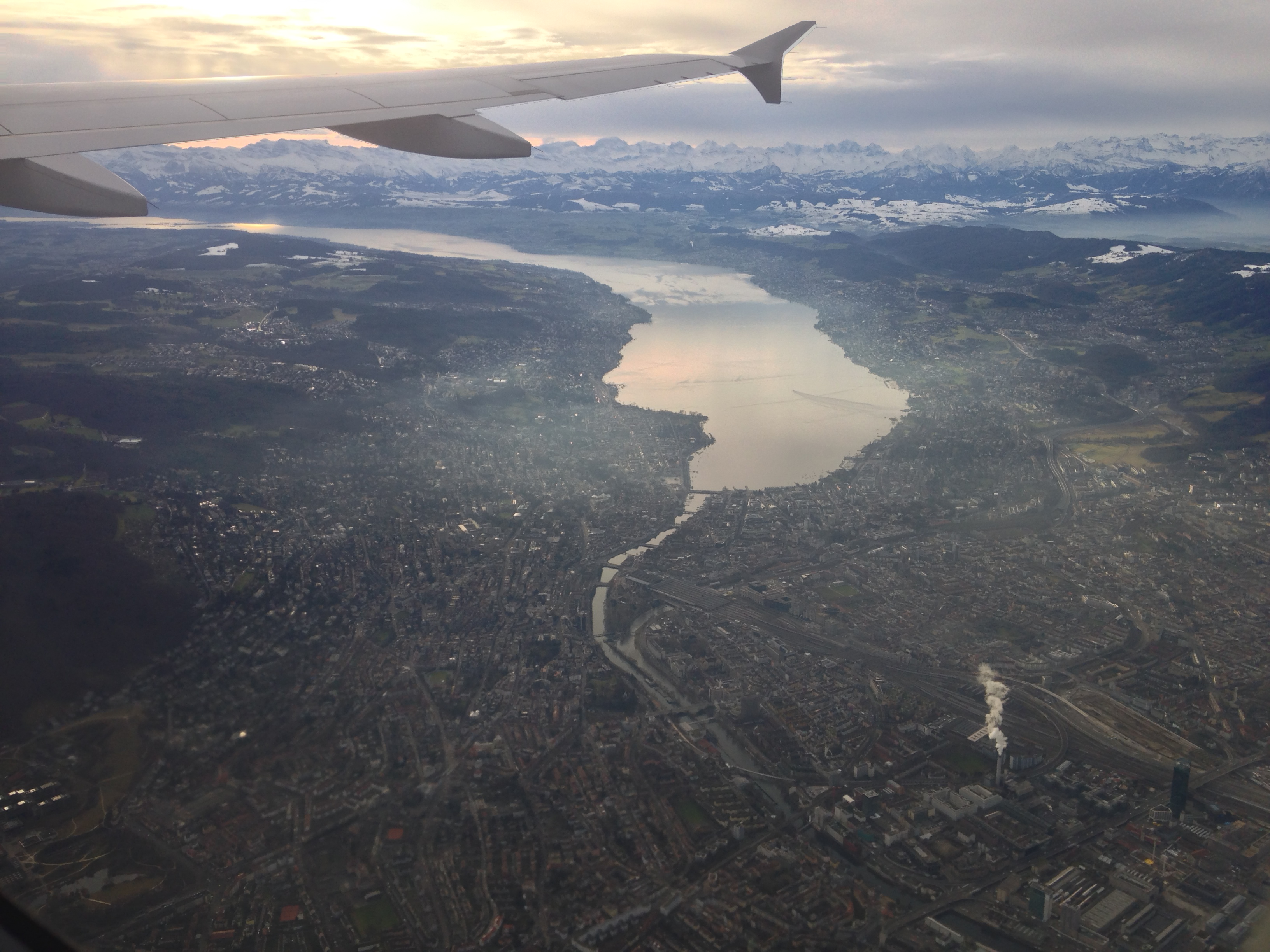 An aerial picture of the city of Zurich, its lake, and the snowy Alps in the background. Taken on January 2014, from flight LX8130 taking off from ZRH.